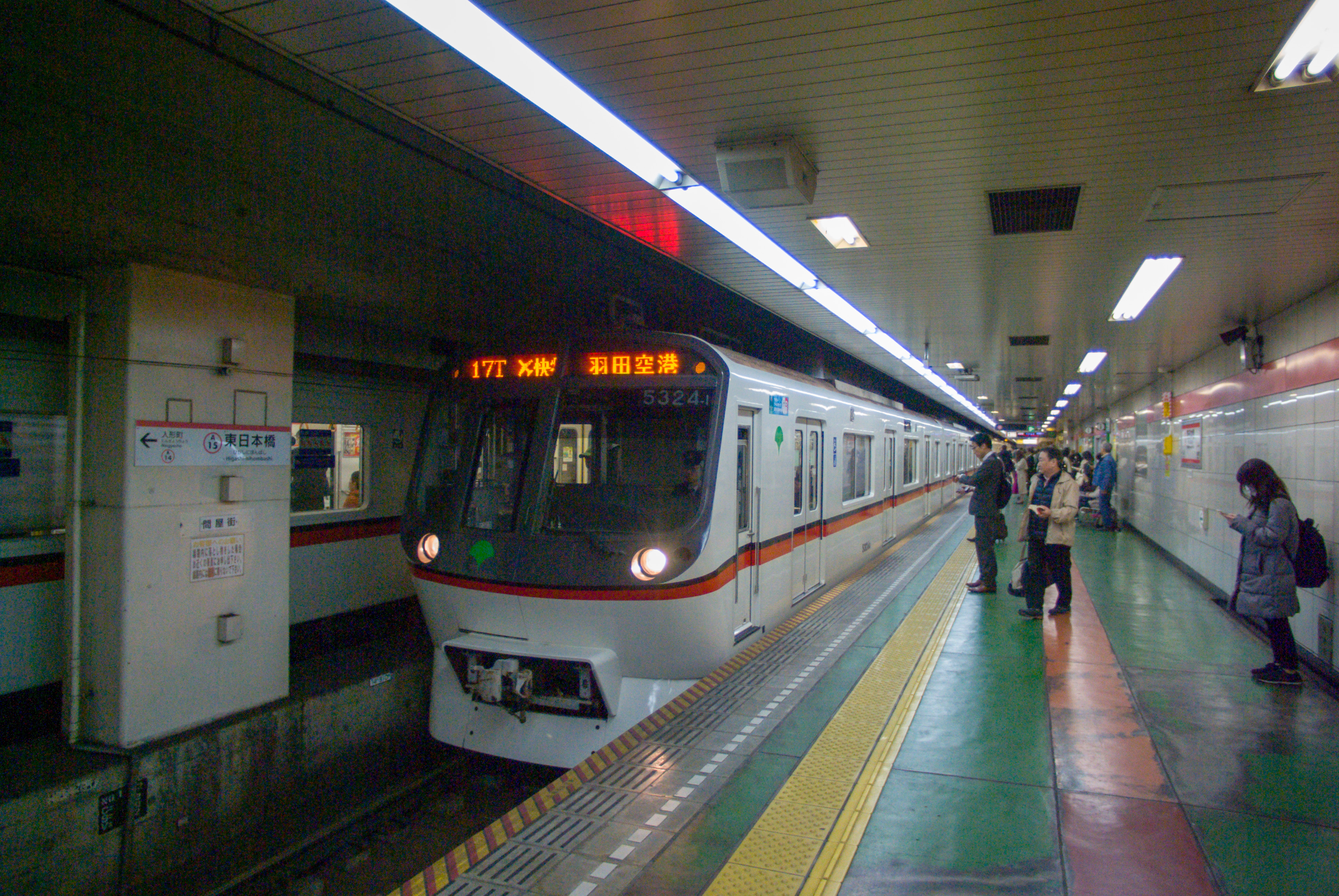 Tokyo Higashi-Nihombashi station 2019-04